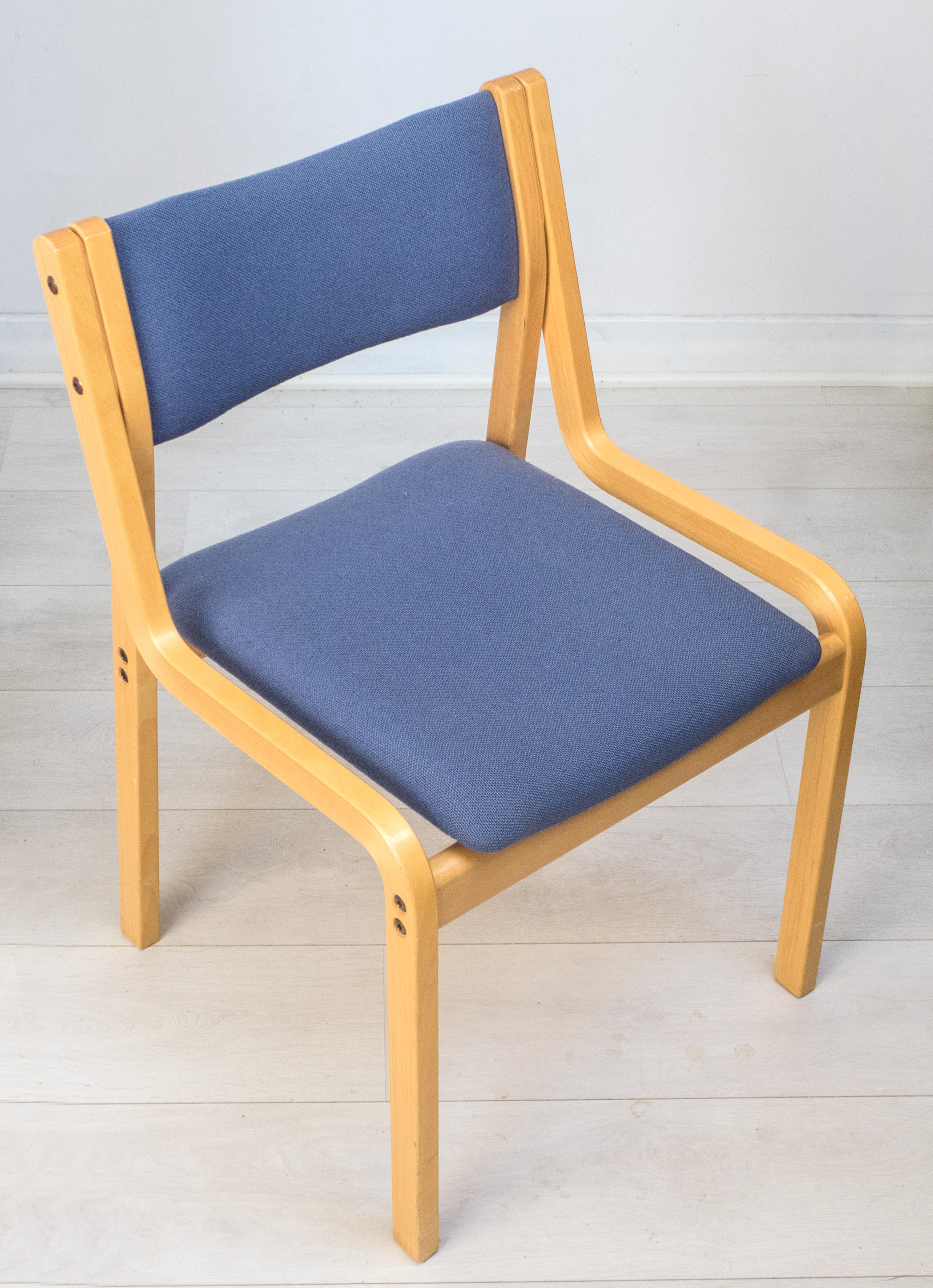 Chair Kari 2 from popular Finnish furniture line ”Kari”, design Kari Asikainen, 1975.